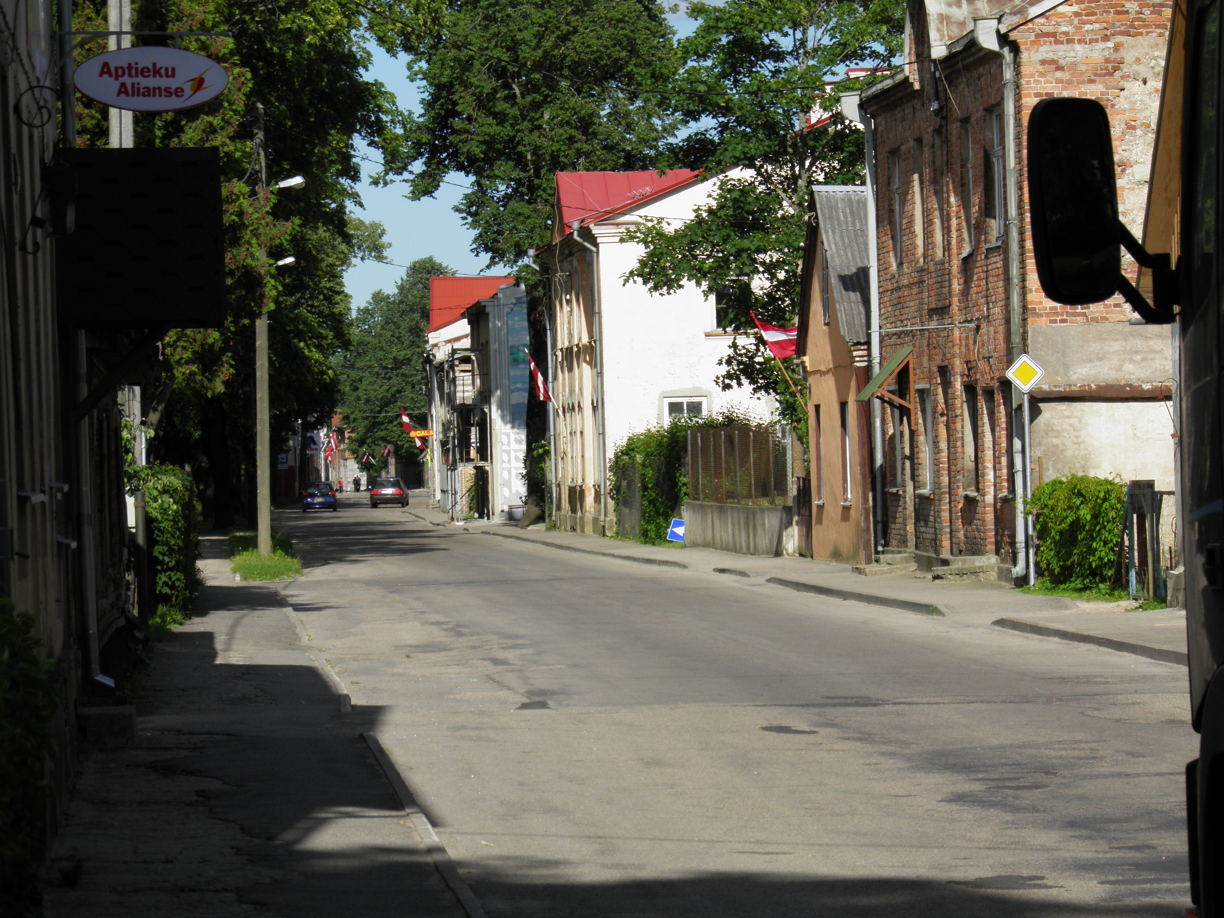 street